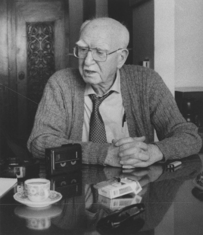 Constantin Zureiq (1909-2000) was a prominent and influential Syrian Arab intellectual who was one of the first to pioneer and express the importance of Arab nationalism. He stressed the urgent need to transform stagnant Arab society by means of rational thought and radical modification of the methods of thinking and acting. He developed some ideas, such as the "Arab mission" and "national philosophy", which were to become key concepts for Arab nationalist thinkers, and in more recent years was a strong proponent of an intellectual reformation of Arab society, emphasizing the need for rationalism and an ethical revolution..